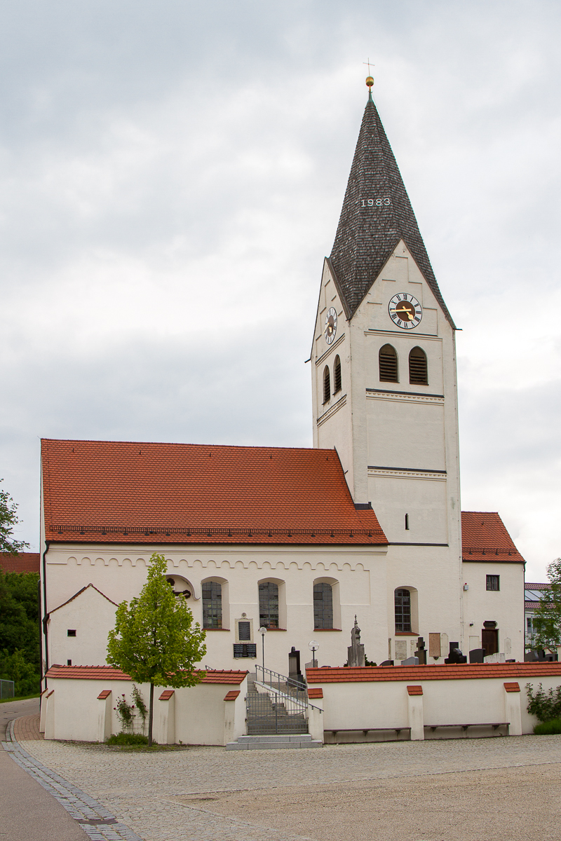 This is a photograph of an architectural monument.